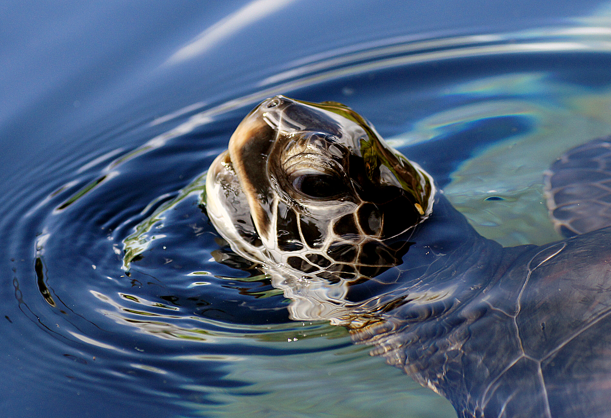 Green sea turtle The green sea turtle, also known as the green turtle, black turtle, or Pacific green turtle. Maui.